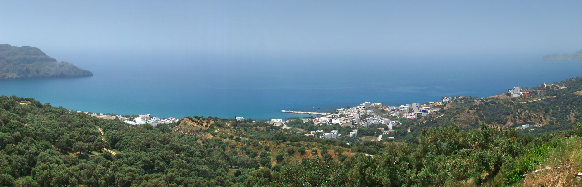 Plakias, Crete, Greece. View from the neighbour town of Myrthios.